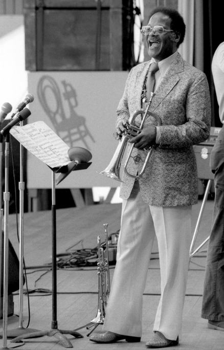 Clark Terry at Monterey (CA) Jazz Festival 1981. Photo by Brian McMillen /